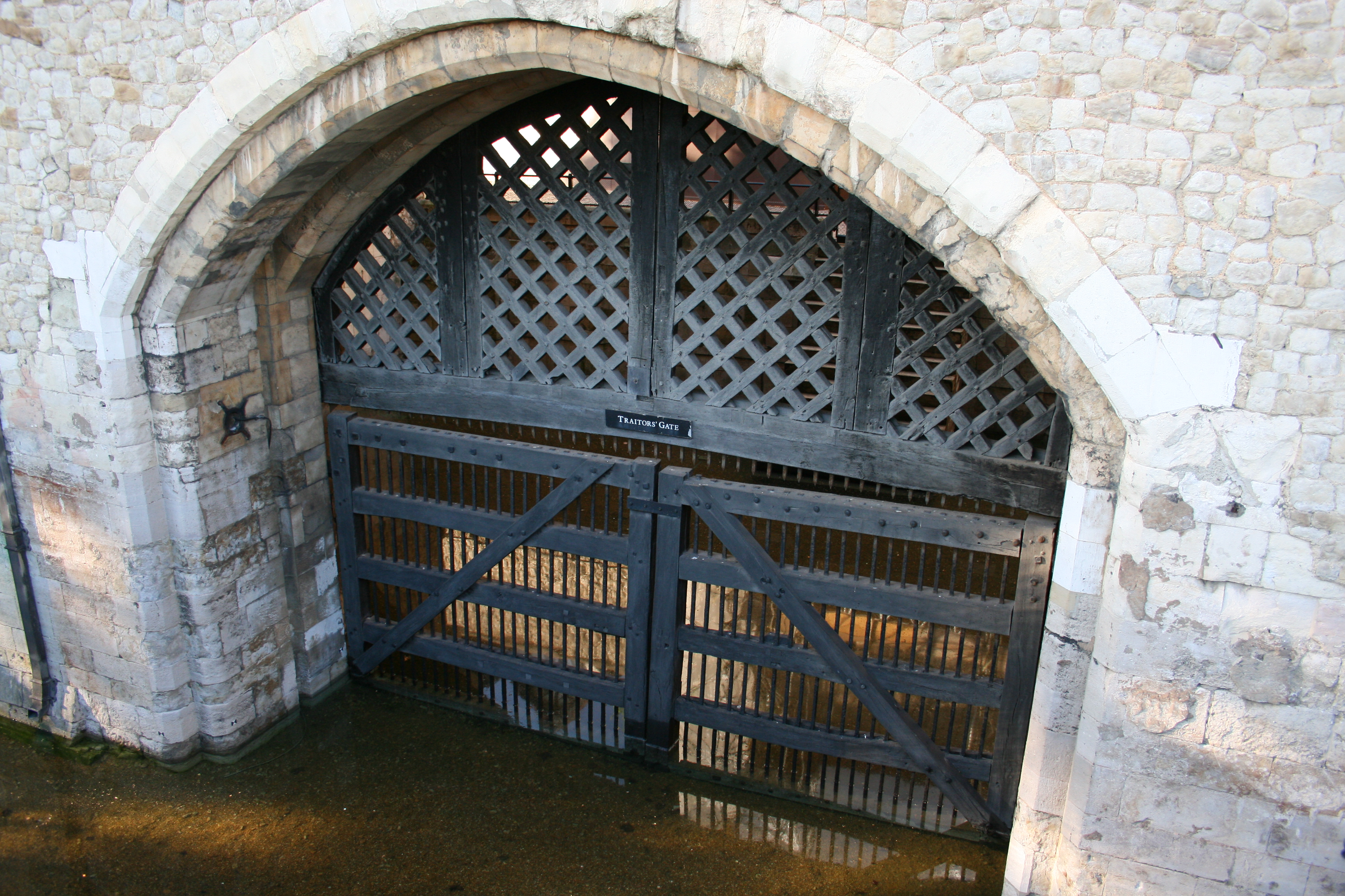 Tower of London, Traitor's Gate in St Thomas's Tower